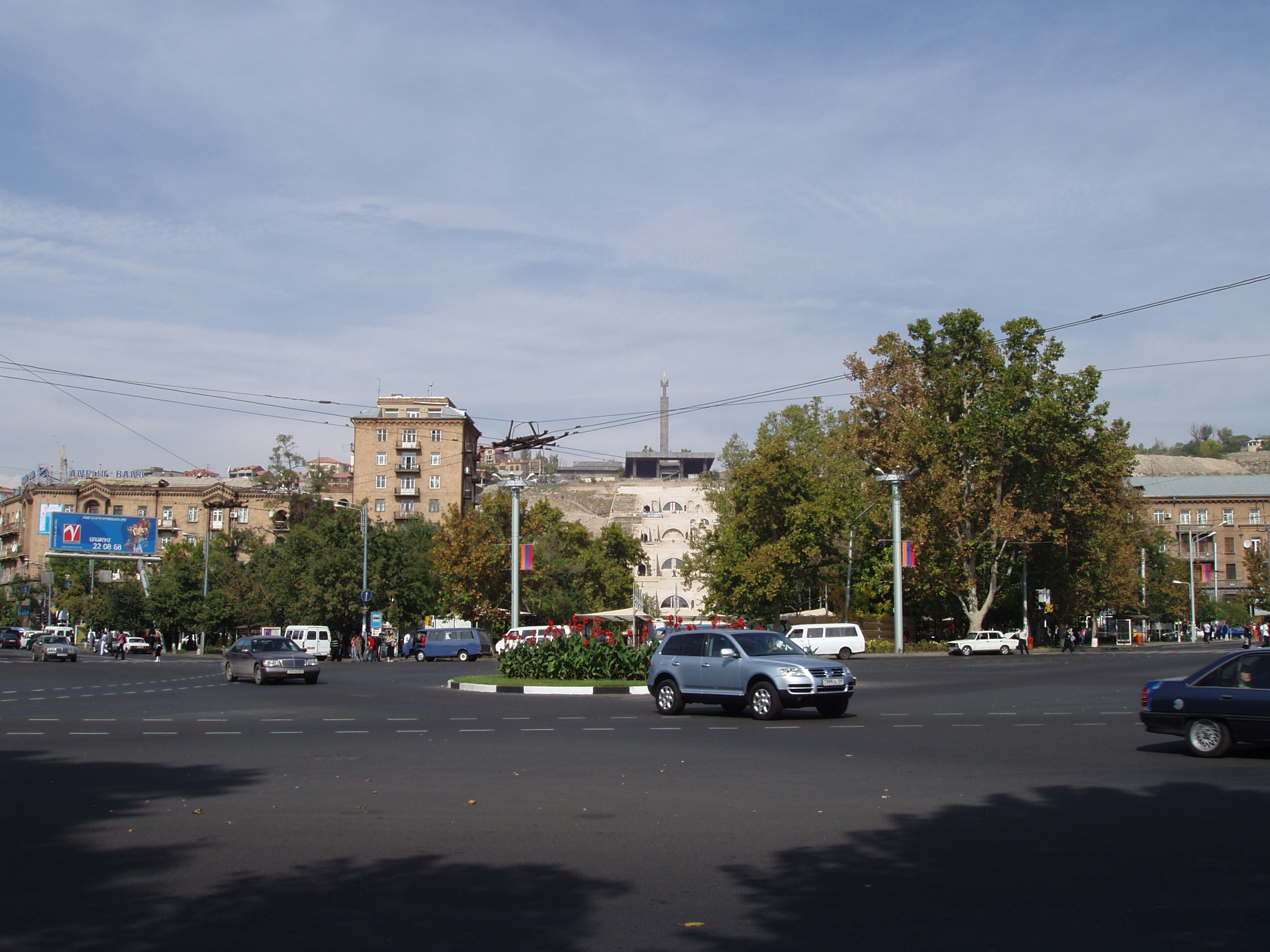 Yerevan, Square of France.